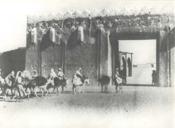 un gate of the old wall of kuwait city